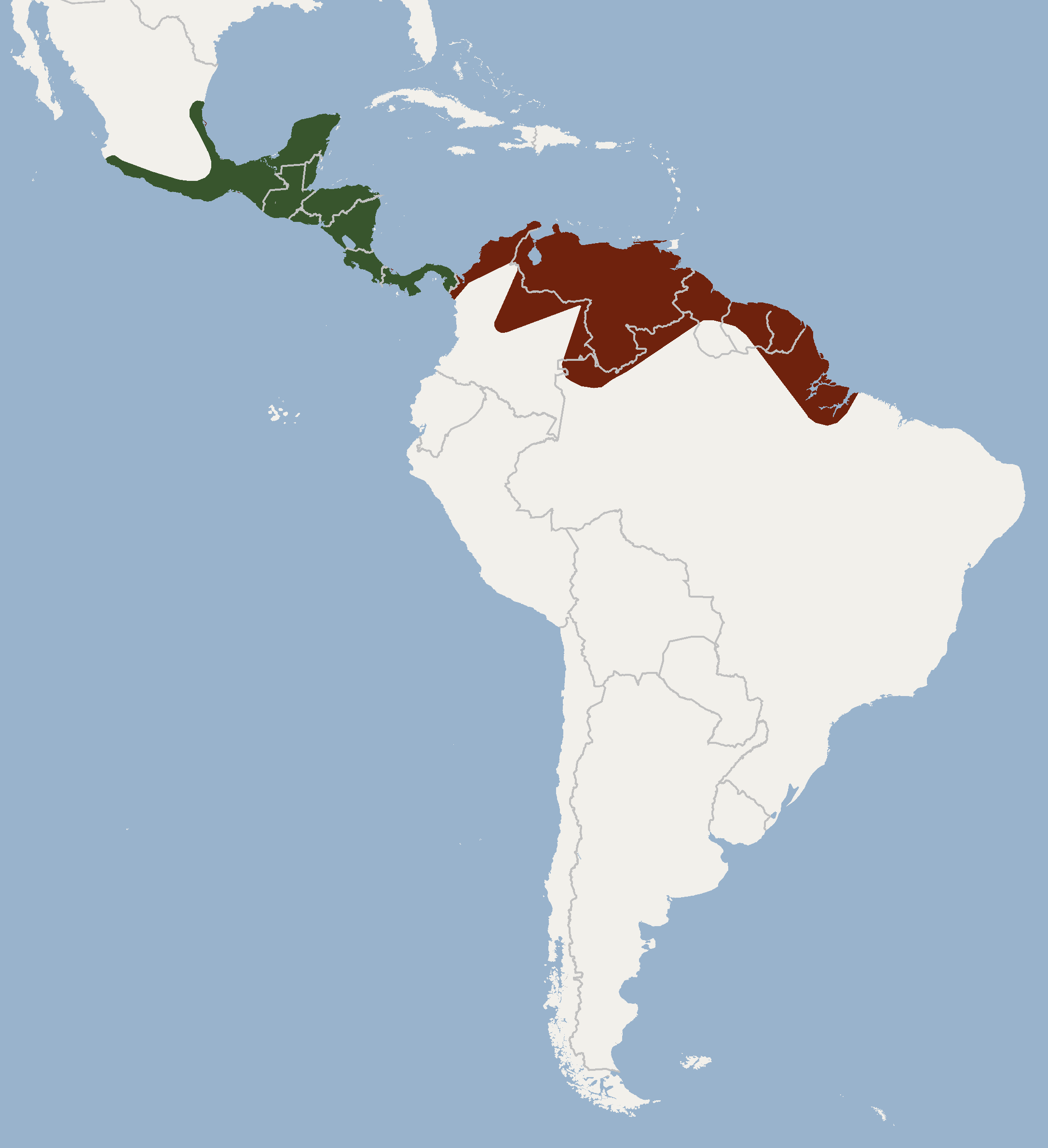 According to Gardner, 2008 & Reid, 2008 M.m.microtis M.m.mexicana